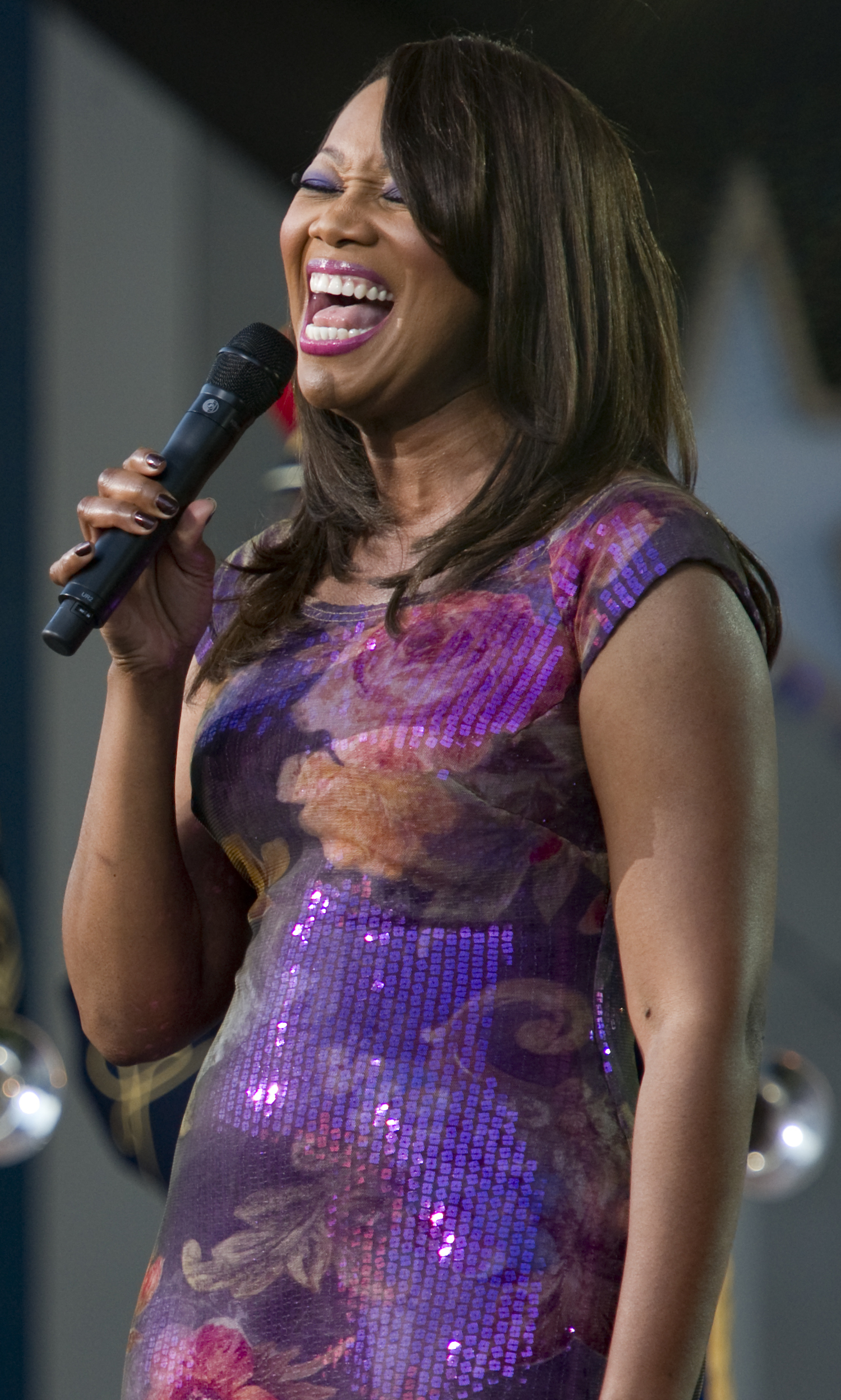 Yolanda Adams performs at the National Memorial Day Concert on the West Lawn of the U.S. Capitol in Washington, D.C on May 30, 2010.